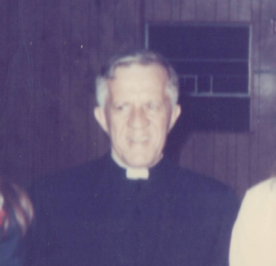 John King Mussio, Roman Catholic Bishop of Steubenville seen in about 1973 at St. Mary of the Immaculate Conception Church (Morges, Ohio).